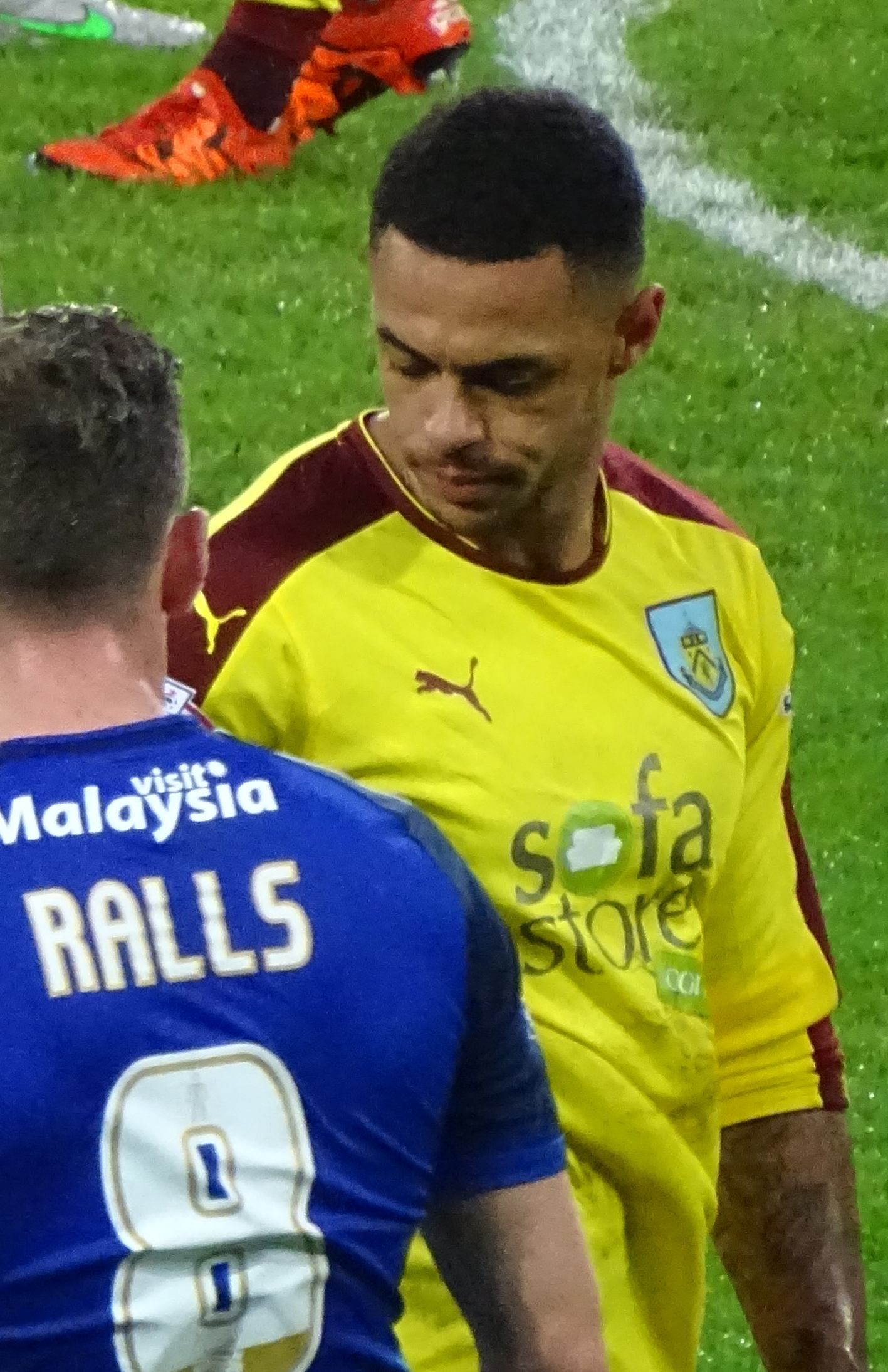 Andre Gray playing for Burnley against Cardiff City at Cardiff City Stadium on 28 November 2015